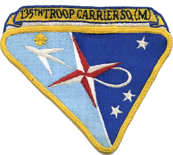 135th Troop Carrier Squadron - emblem